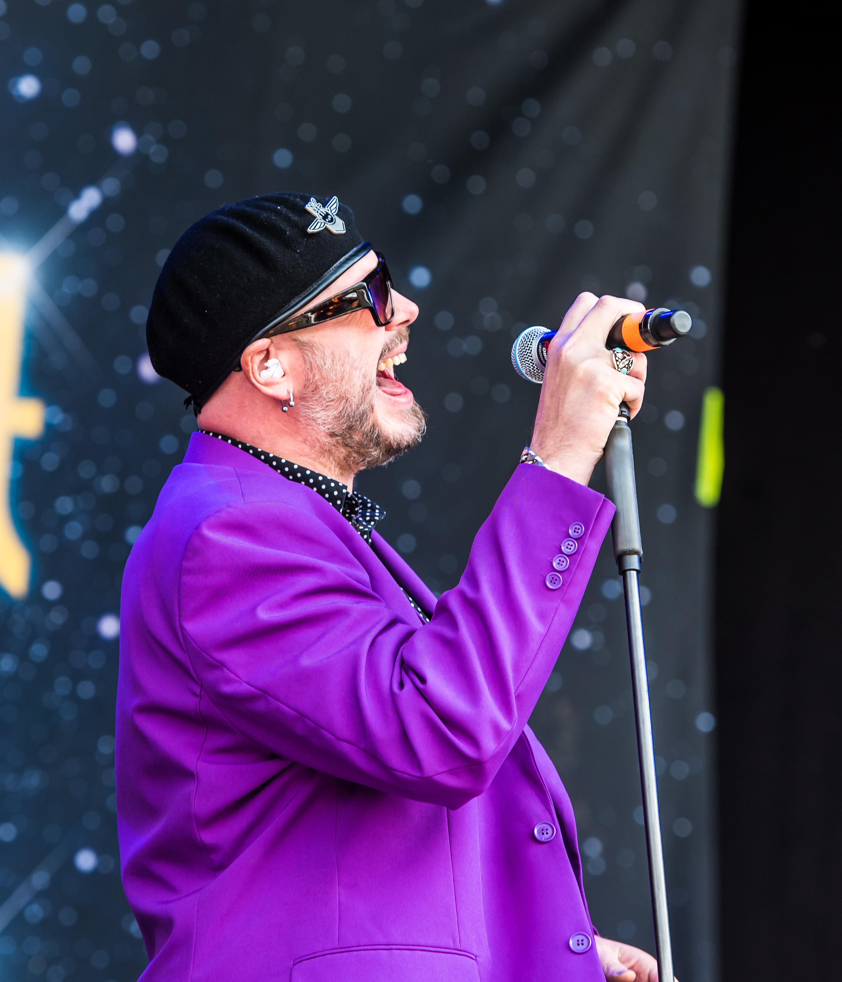 The Night Flight Orchestra playing at Reload Festival 2018